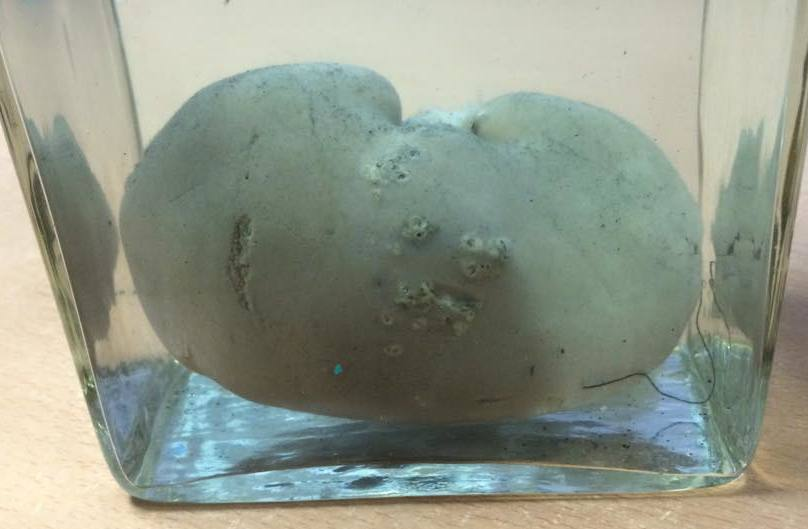 Pyemic abscess of the kidney: the kidney is swollen, the external surface show foci of abscesses, the abscesses are small, multiple and subcapsular in location.